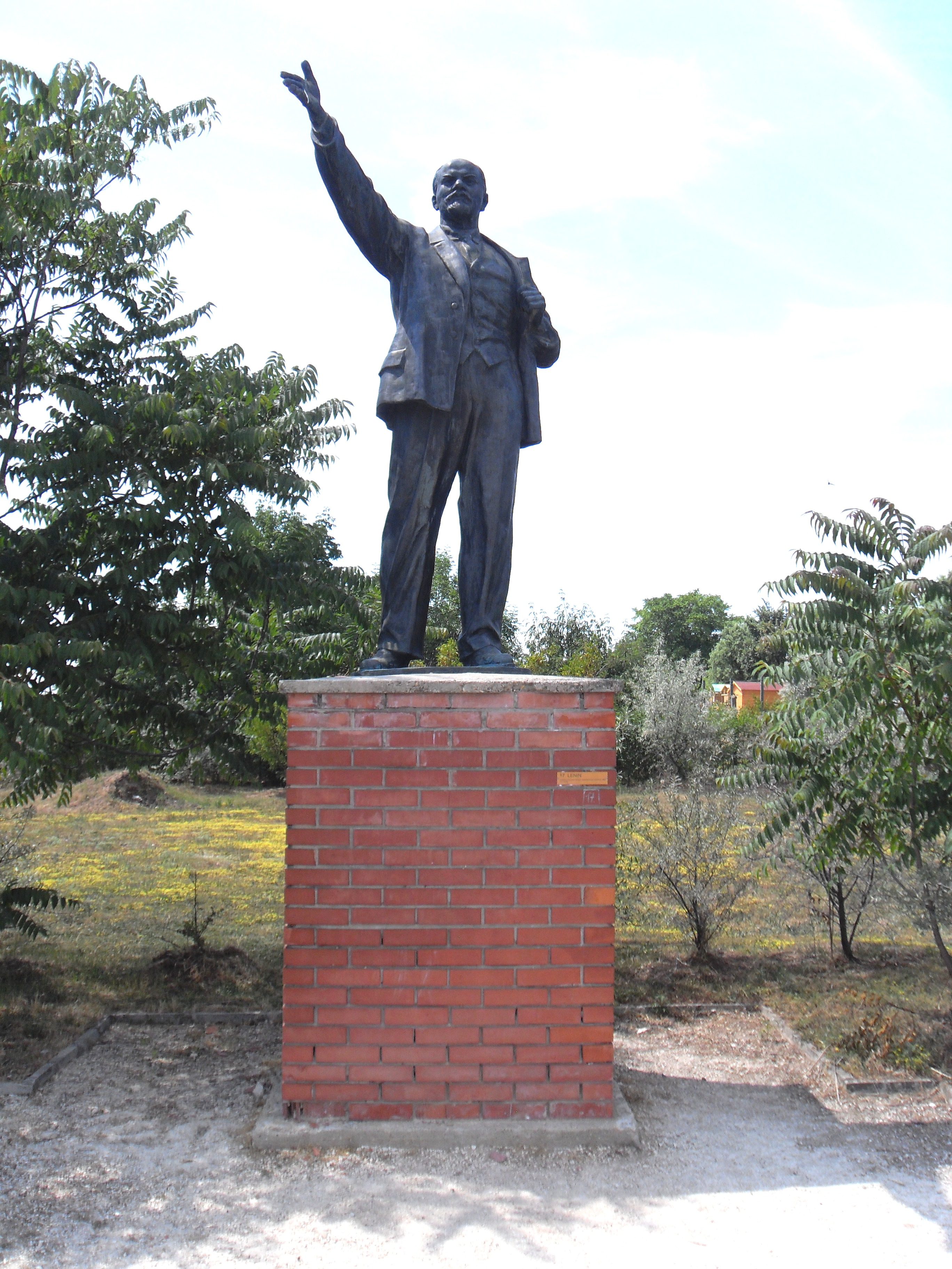 Lenin statue from outside the "Csepel ironworks" factory (Csepel was in the late nineteenth century an intensely industrial area, with manufacturies and soviet heavy machinery plants). The metal statue is about 2 meter 50 cm high and was originally located in Csepel Island, the working class district and industrial area located south of Budapest, in front of the factory complex called "Csepel Muvek" (Csepel Works), which was the flagship of the Hungarian heavy industry. The statue of Lenin with his outstretched right hand was installed in Budapest in 1958 at Khrushchev's suggestion but was removed in 1989. It was not untill 1996 that the statue was again to see in Budapest, after the factory donated it to the Memento Park.